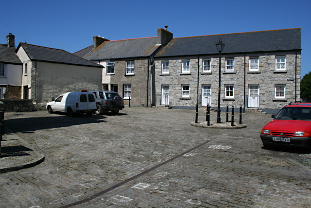 Market Square This quiet courtyard behind the town clock used to be the bustling hub of St Day market in the time when this village was the commercial hub of the Gwennap mining district.